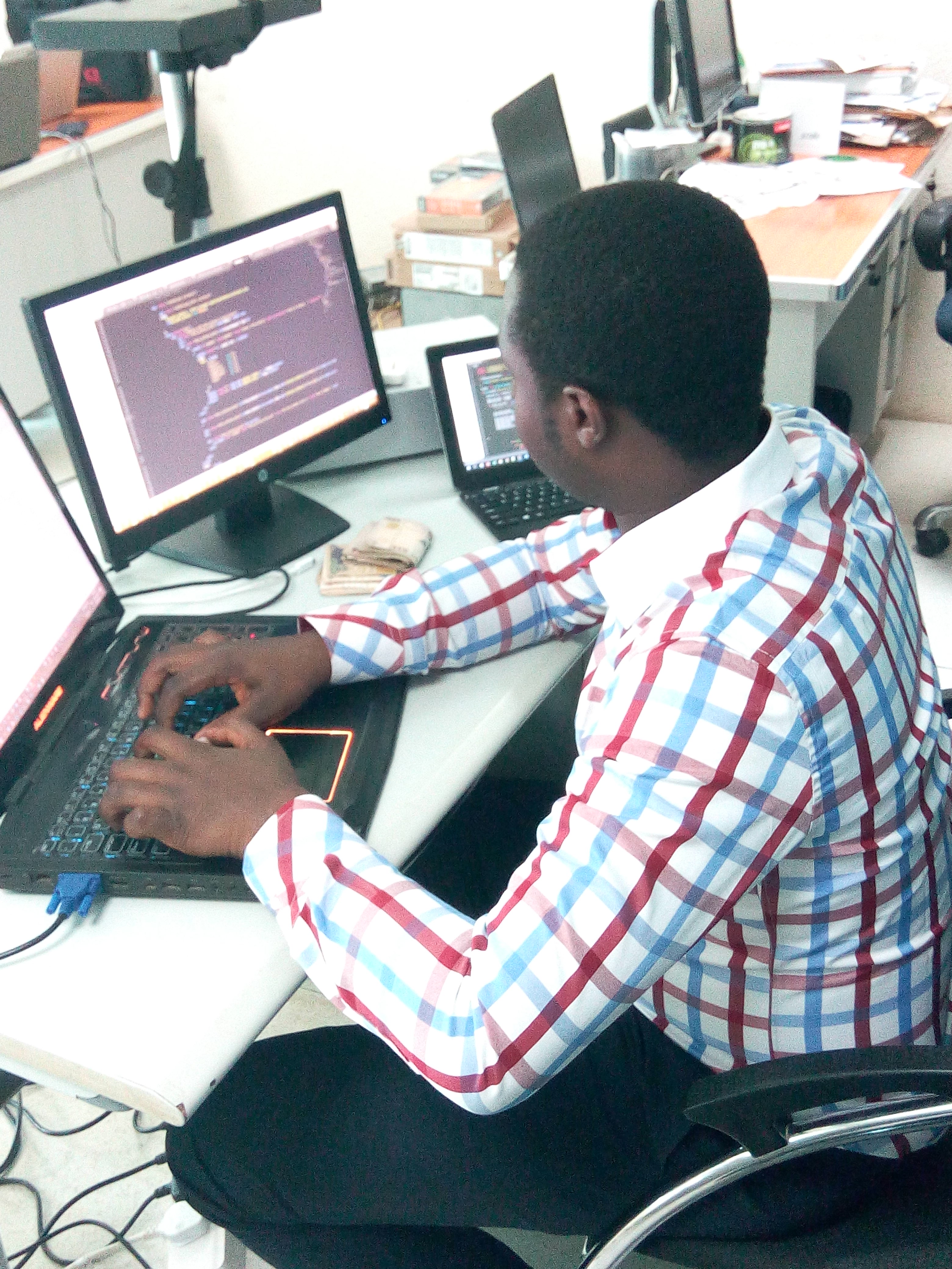 Software developer at work. Nigeria This is an image of "African people at work" from Nigeria